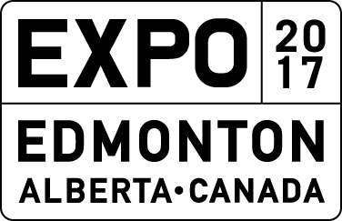 Edmonton EXPO 2017 logo